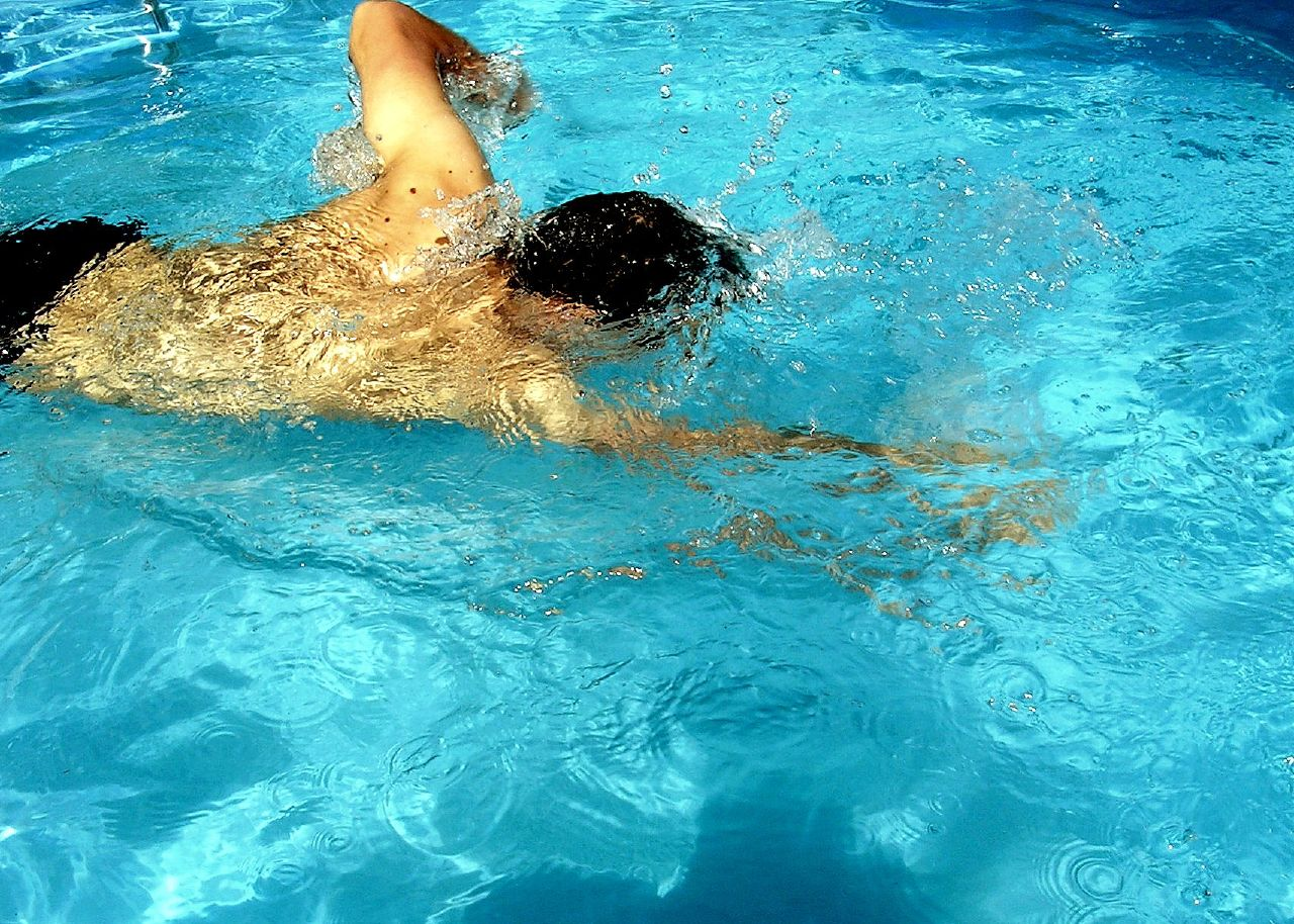 Template:Back of a man crawling in a swimming pool.